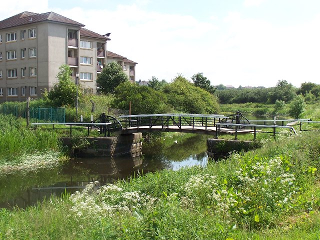 Original description: Blairdardie bascule bridge Built in 1790 on the Forth and Clyde Canal.